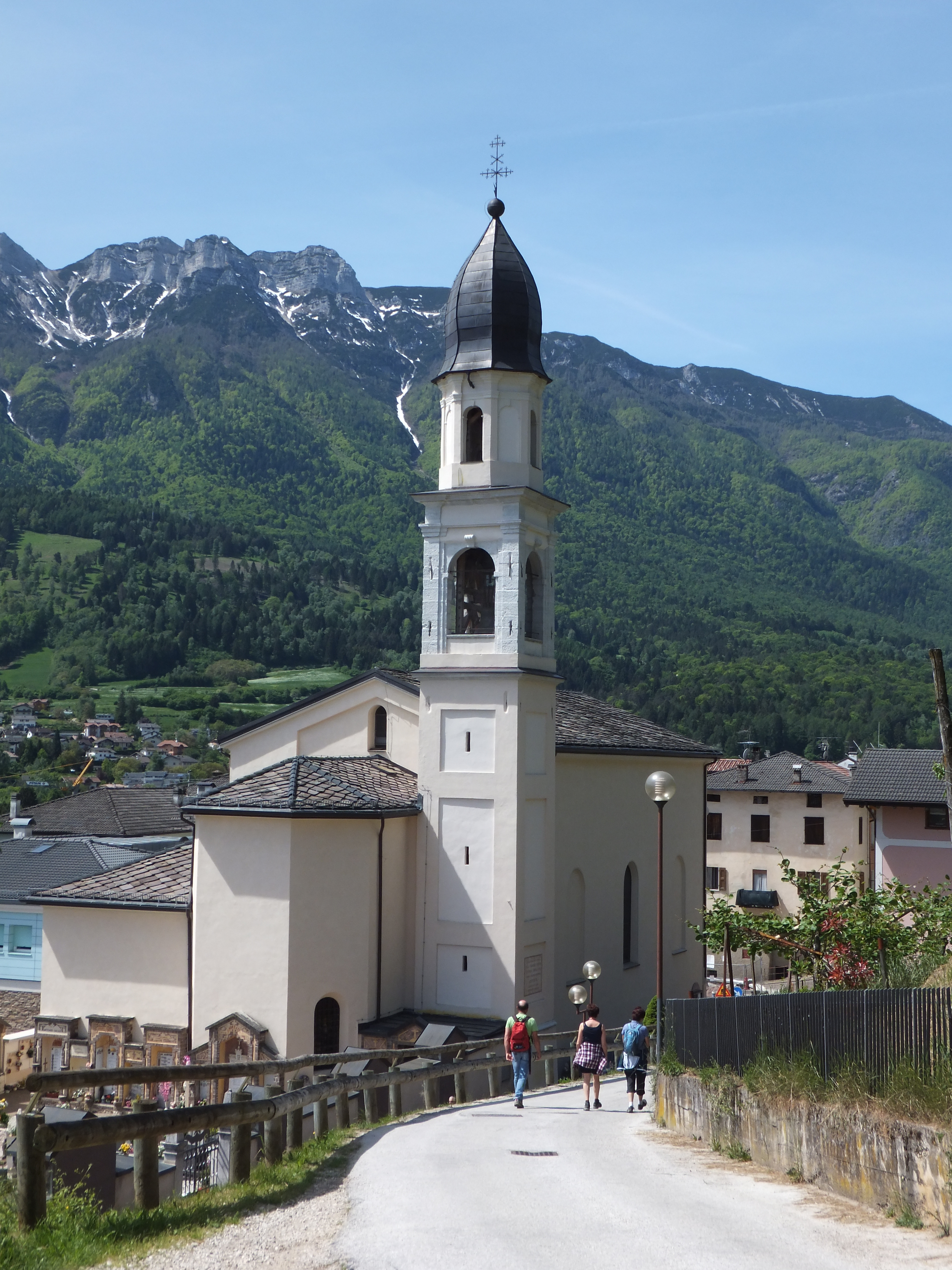 Bosentino (Trentino, Italy) - Church of Saint Joseph